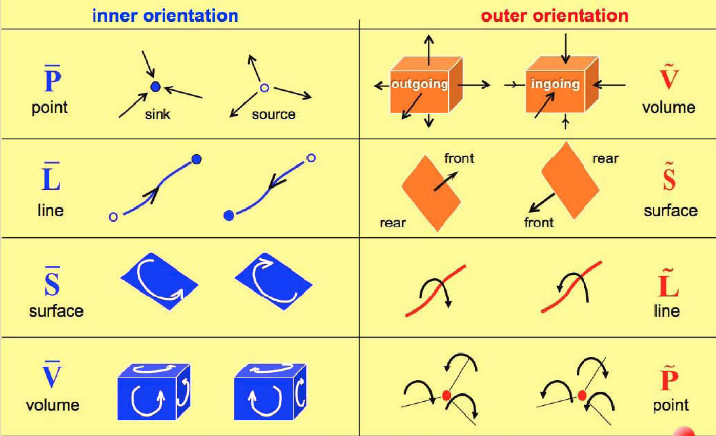 Spatial orientation